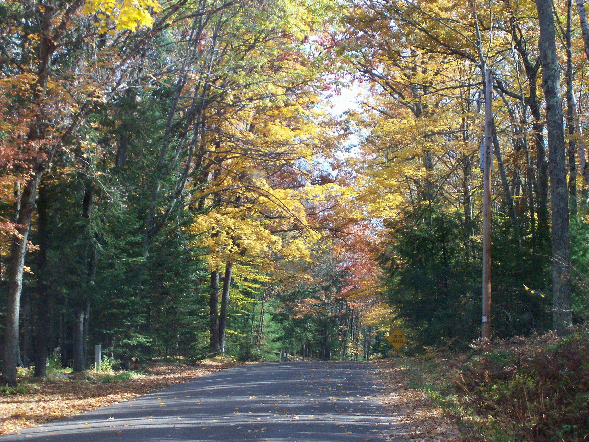 Rural northeast Oconto County, Wisconsin woods in fall. Taken on County W. This image was taken on October 7, 2006 by User:Royalbroil.